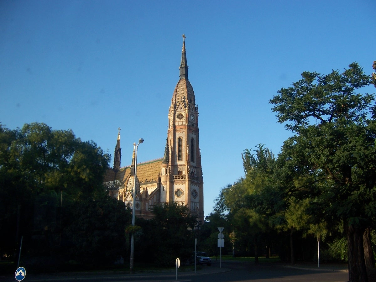 Saint Ladislaus Church, District 10, Budapest, Hungary